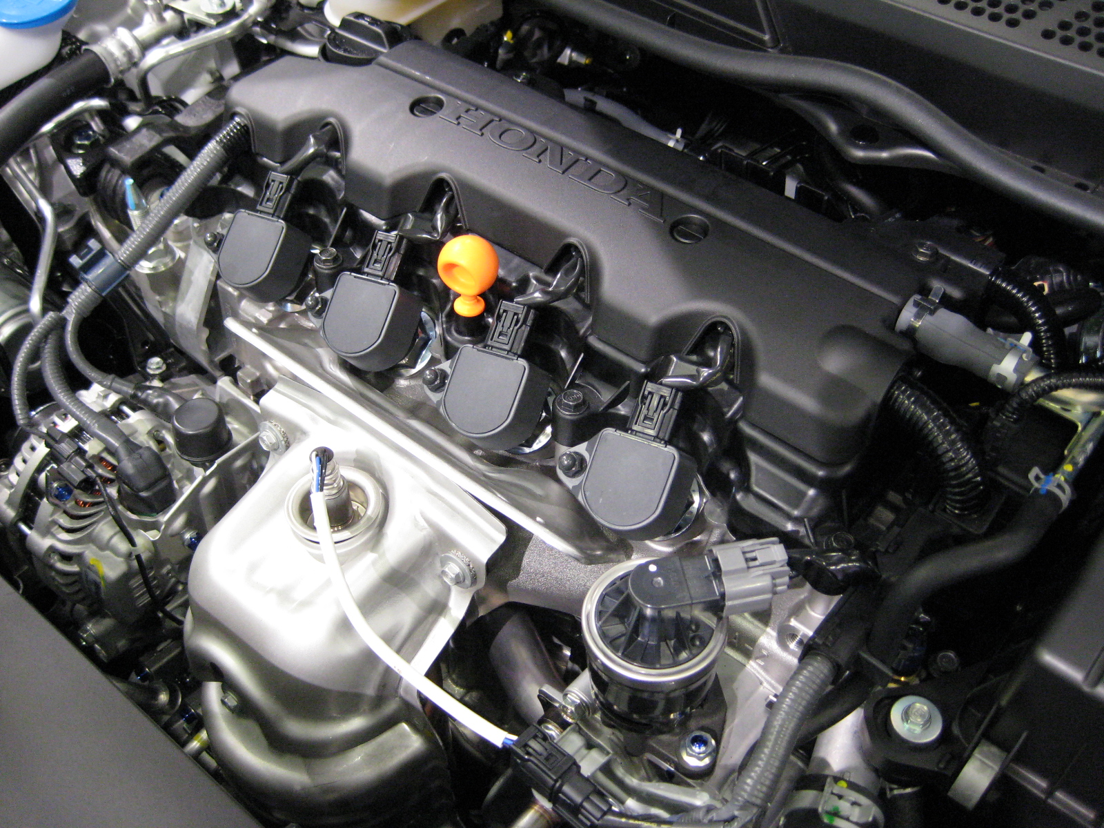 Honda R18A 1.8L SOHC i-VTEC Engine on 2007 Honda Civic